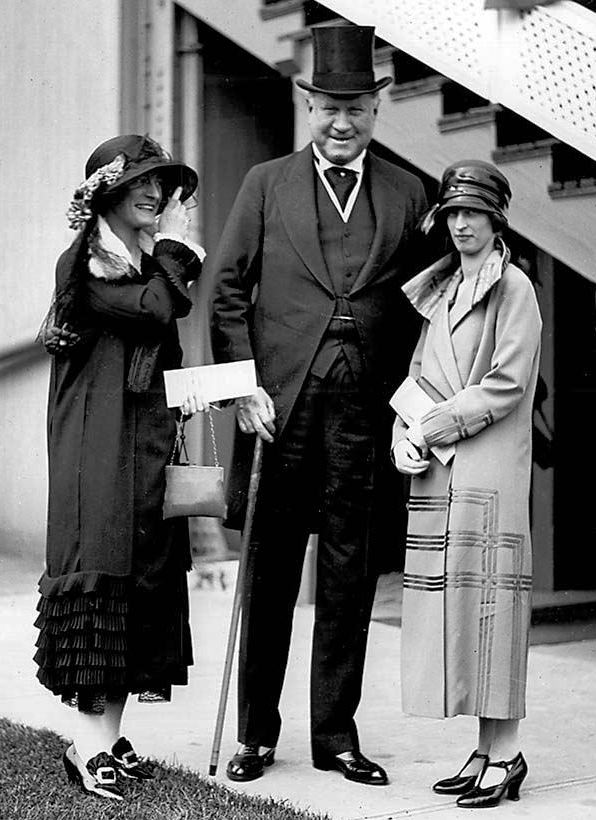 Sir Henry and Lady Thornton at Ontario Jockey Club. He was the energetic second President of the Canadian National Railway from 1922 to 1932.